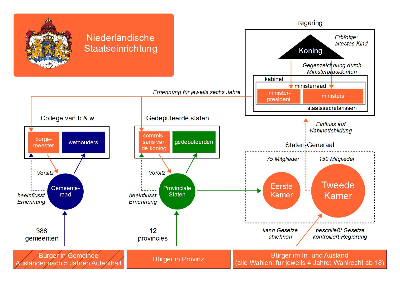 Dutch state organisation, in German language